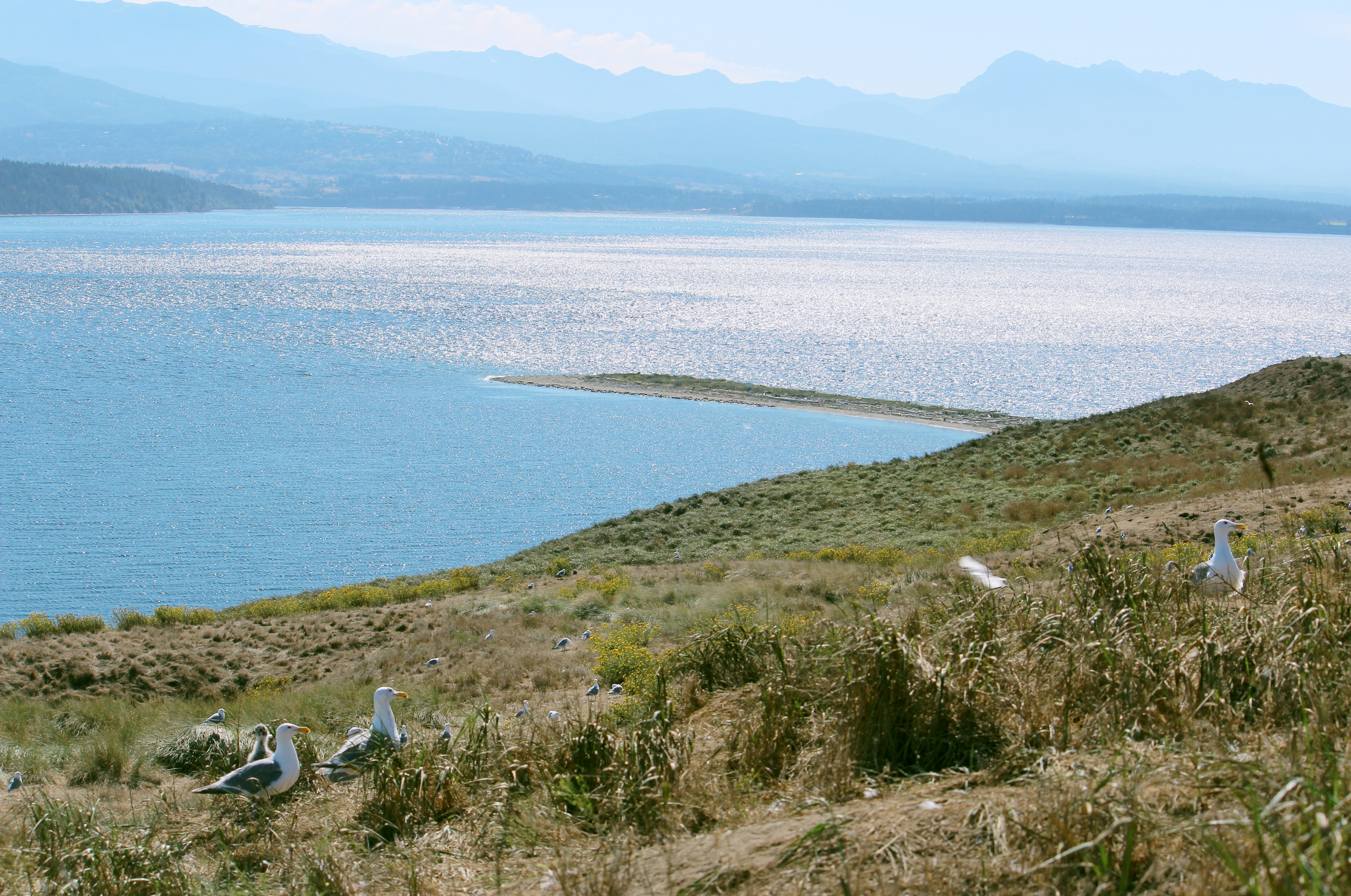 Protection Island National Wildlife Refuge, Washington, USA Protection island has over 5,000 nesting gulls and provides valuable seabird habitat. It's 1 of 8 large rhinoceros auklet colonies. The island is closed to public entry to protect breeding seabirds, to limit disturbance and to protect auklet burrows which are easily crushed when walked upon.